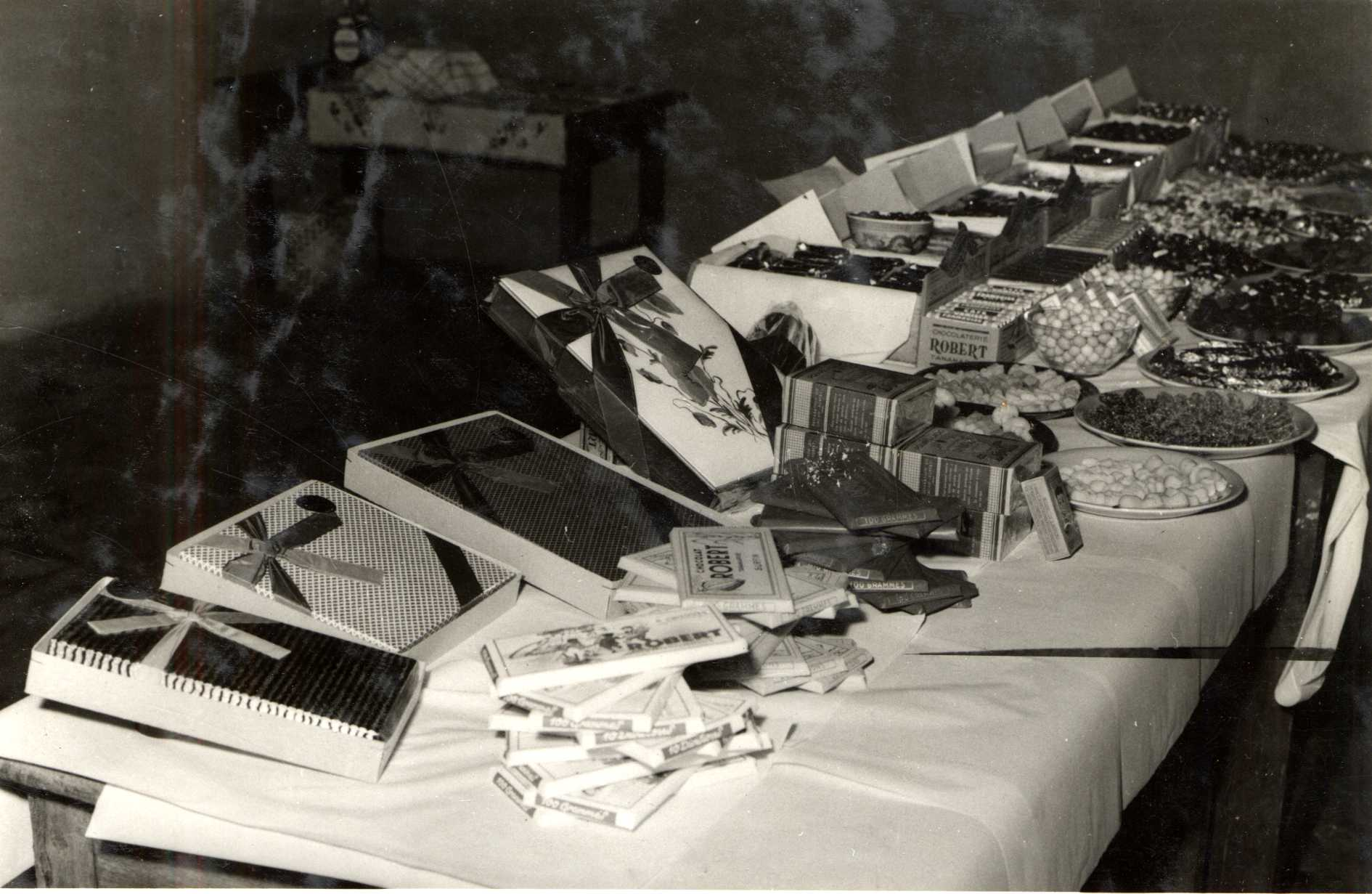 Produits finis 1962